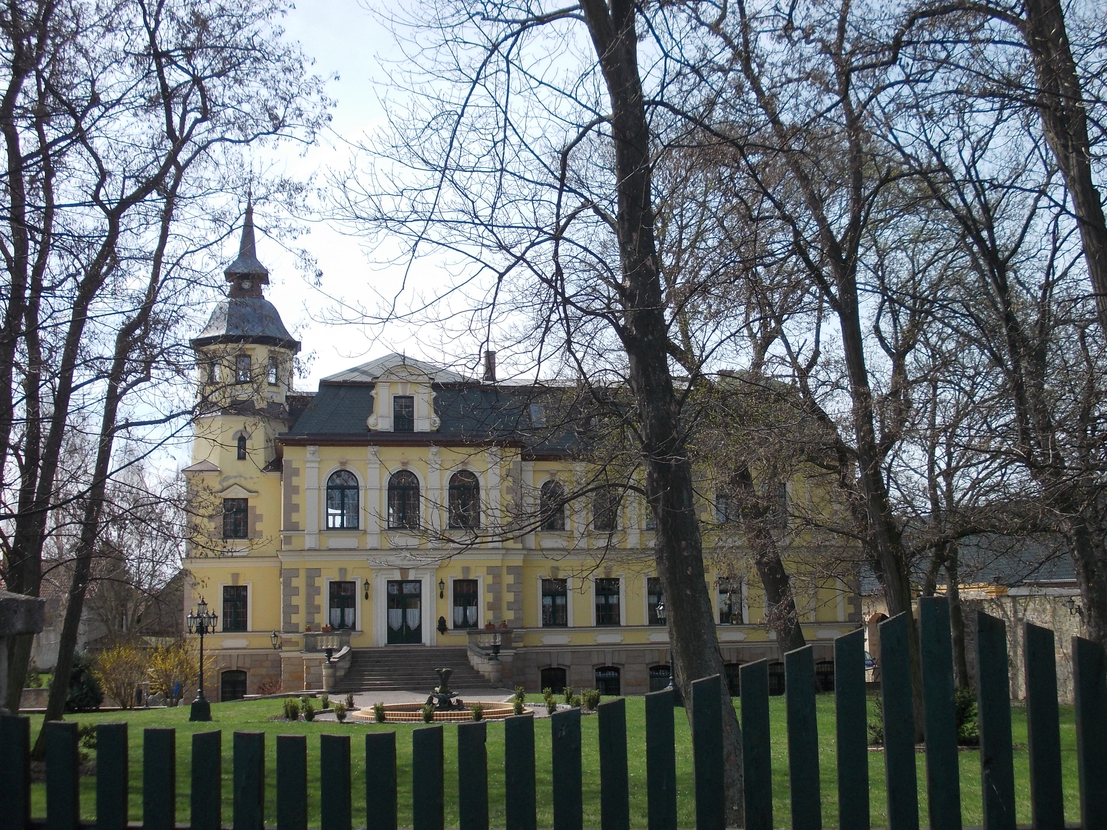 Schotterey manor house (Bad Lauchstädt, district of Saalekreis, Saxony-Anhalt)